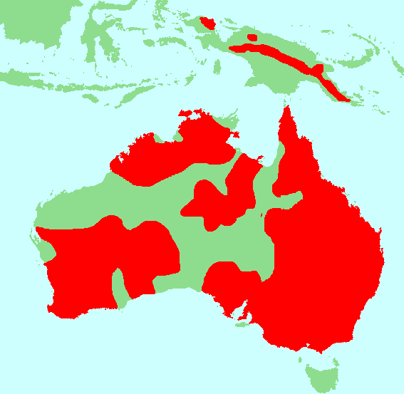 Distribution of the Neosittidae, sittellas. Based on Hanbook of the Birds of the World. Created DEMIS World Map Server using and PD source maps.